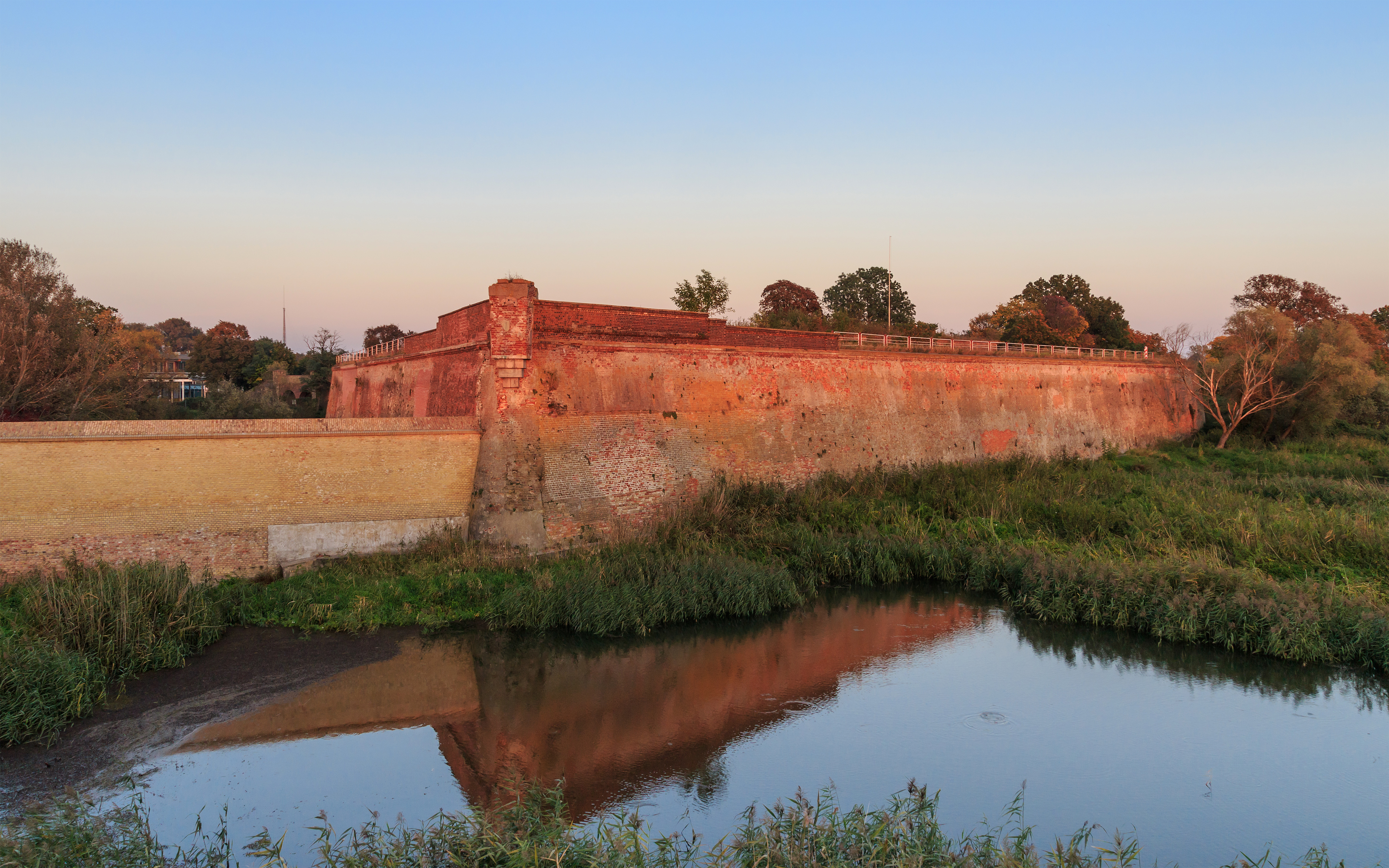 Fortification wall in Kostrzyn nad Odrą (Poland)